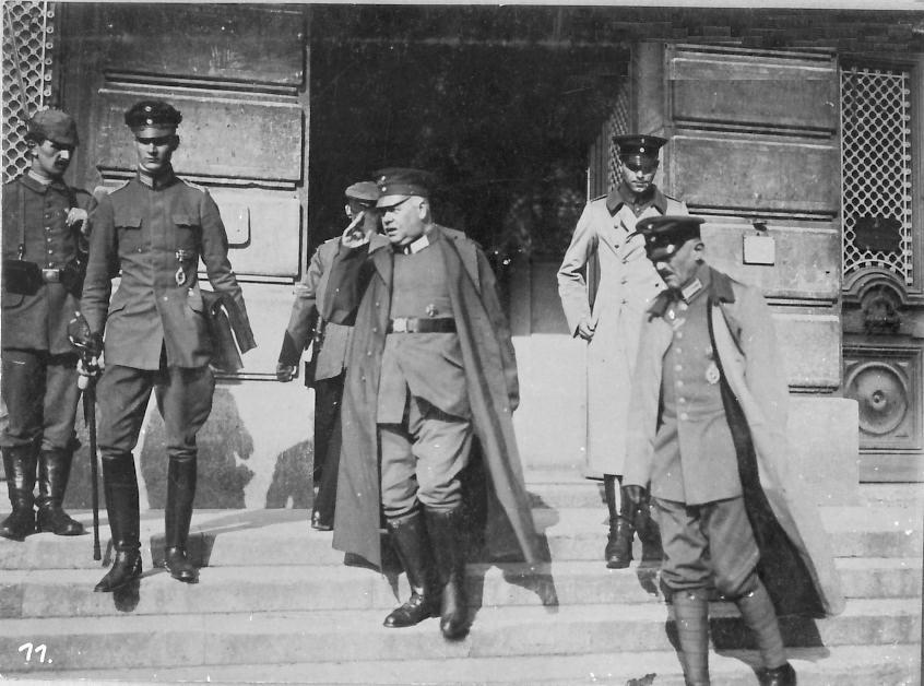 Lieutenant Fritz von Falkenhayn (left) , Lieutenant Colonel Hermann von der Lieth-Thomsen (center) and Major Wilhelm Siegert (right).